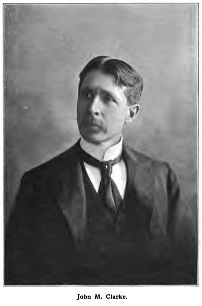 John Mason Clarke (1857–1925), American paleontologist from New York state